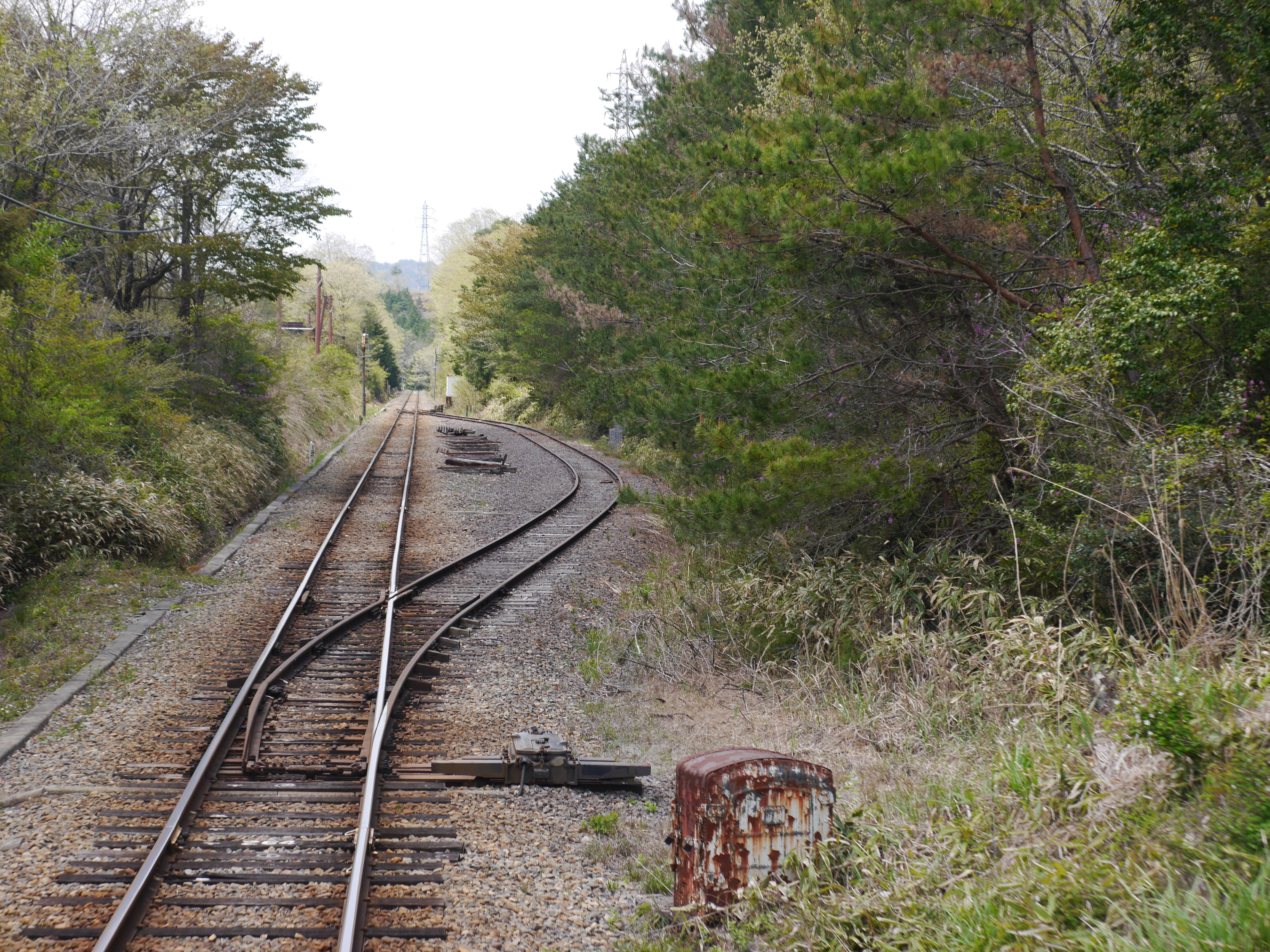 Disused Onotani signal station, Shigaraki Kogen Railway